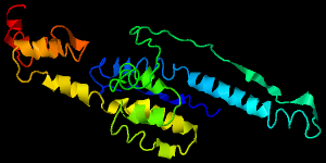 I-TASSER Predicted structure for LDOC1L protein.